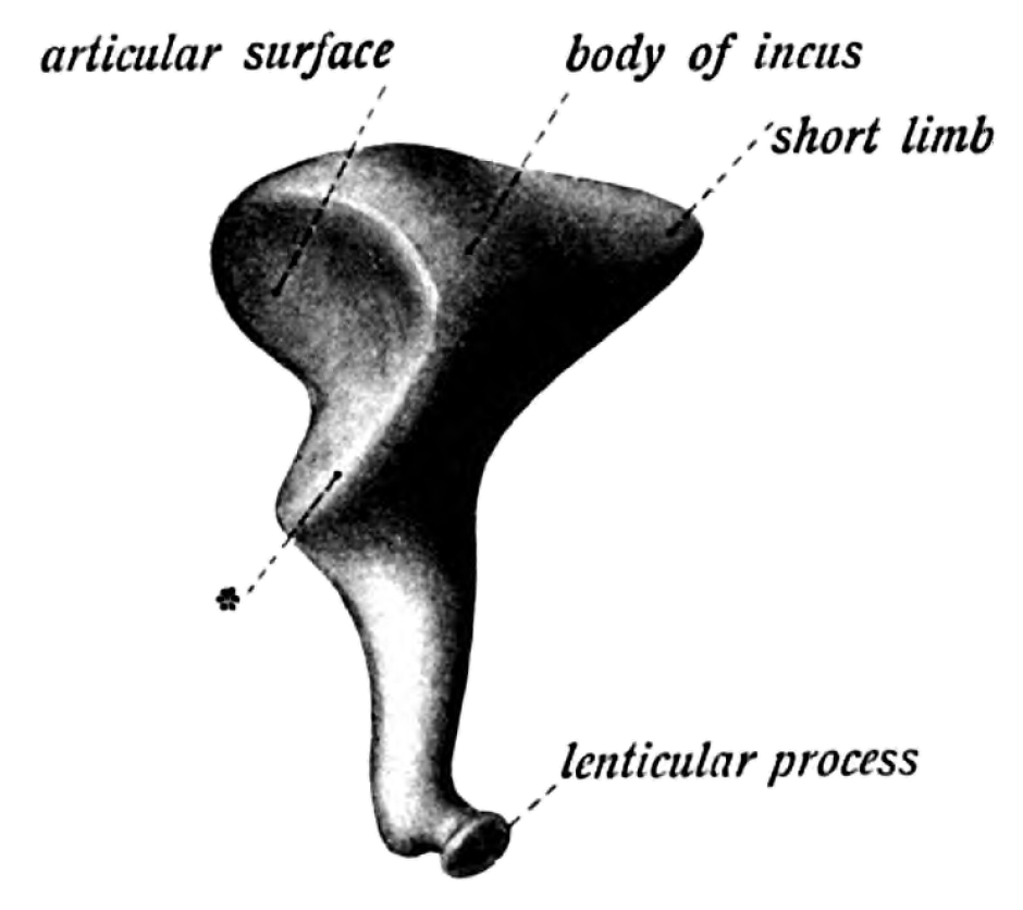 An anatomical illustration from the 1909 edition of Sobotta's Anatomy